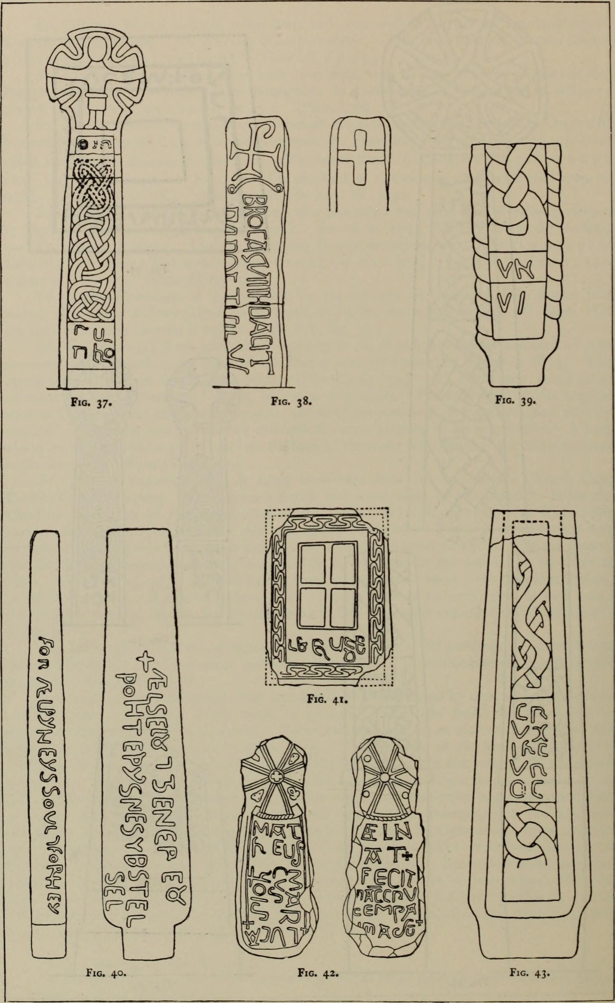 Title: The Victoria history of the county of Cornwall Year: 1906 (1900s) Authors: Page, William, 1861-1934 Subjects: Natural history Publisher: London : (A. Constable and Company) Text Appearing Before Image: z ^ Fig. 36. Scale, Jj linear. Fig. 32. Cardinham, No. 2—Fig. 33. Lanhadron—Fig. 34. Lanherne—Fig. 35. Par (from Biscovey)- Fig. 36. Redgate. 421 A HISTORY OF CORNWALL PLATE VI Text Appearing After Image: Scale, 7^ linear. Fig. 37. Sancreed, No. 2.— Fig. 38. Doydon—Fig. 39. Gulval—Fig. 40. Lanteglos by Camelford—Fig. 41. Pendarves- Fig. 42. Trevena—Fig. 43. Waterpit Down. 422 EARLY CHRISTIAN MONUMENTS South Hill.—Rude pillar stone standing in the rectory garden. Discovered by the lateS. J. Wills, of St. Wendron, on 3 September, 1891, in rockery of vicarage garden. Theinscription is in two vertical lines surmounted by the Chi-Rho monogram : Q^ cvmregniFiLi MAVCI. (Plate III, fig. 25.) Tawna.—See Cardinham (3). TiNTAGEL.—Ornamented cross standing in garden in front of the WharnclifFe ArmsHotel, in Trevena.^ Found in 1875 by J. J. E. Venning ; in use as a gatepost atTrevillet. On the front is the inscription matheus marcvs lvcas ioh, and on the backii:LNAT + FECIT HAC CRvcEM p(ro) a(n)ima su. (Plate VI, fig. 42.) Trevena—See Tintagel. Treveneage.—See St. Hilary (2). Welltown.—See Cardinham (4). CROSSES It will be easily understood that in these pages it is quite impo